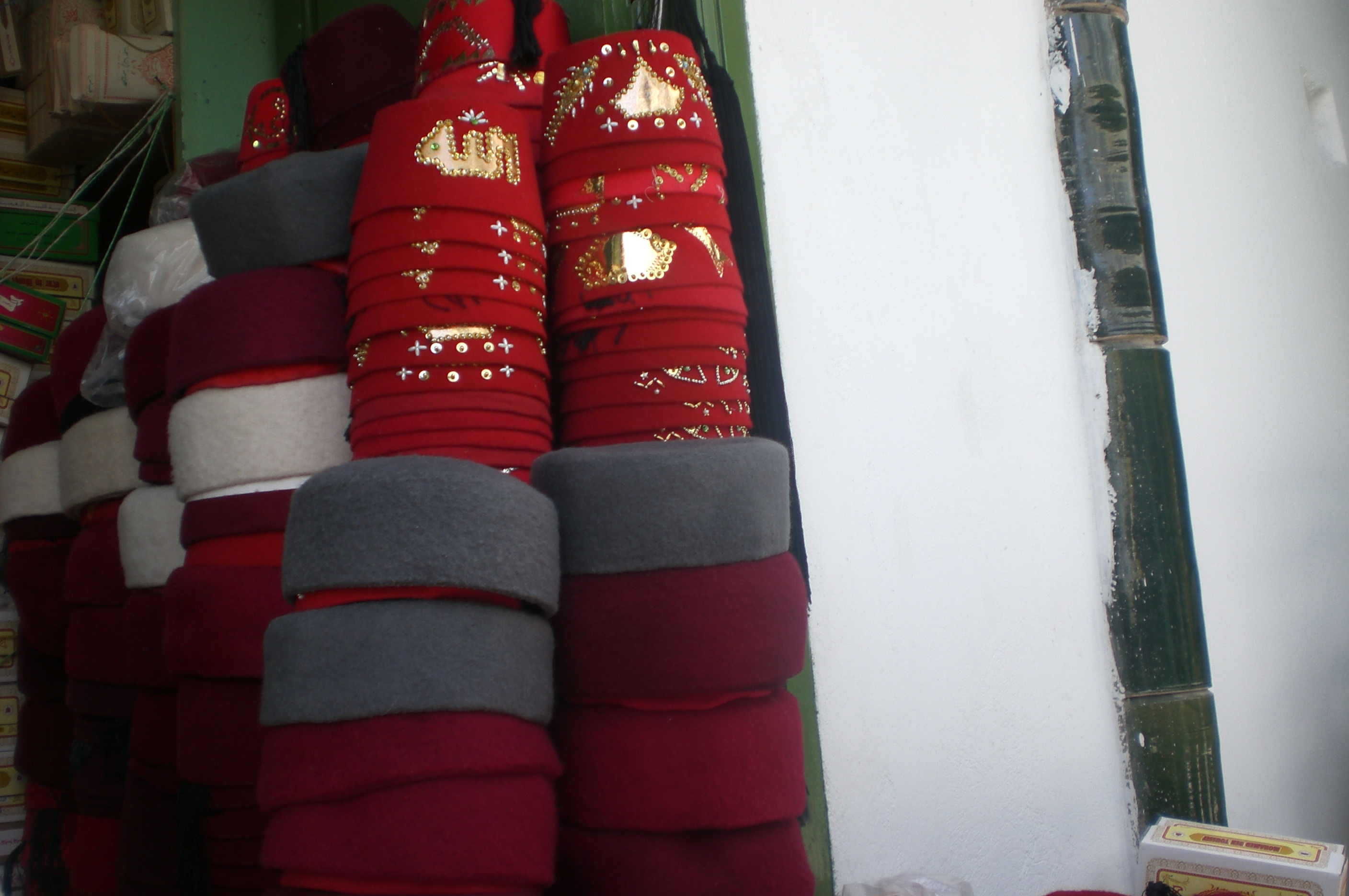 Tunisian chechiq